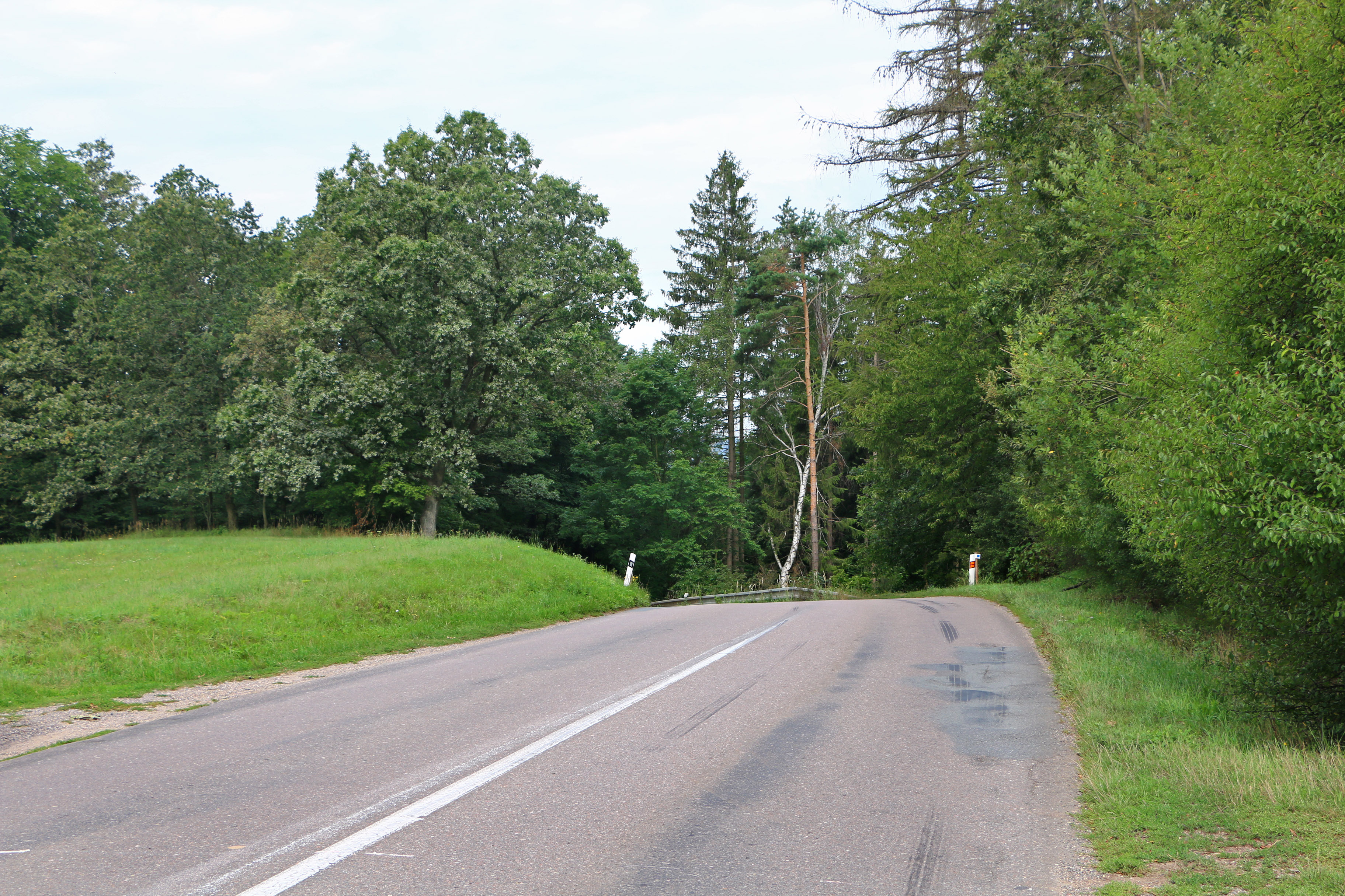 Road No 315 by Lanškroun, Czech Republic.